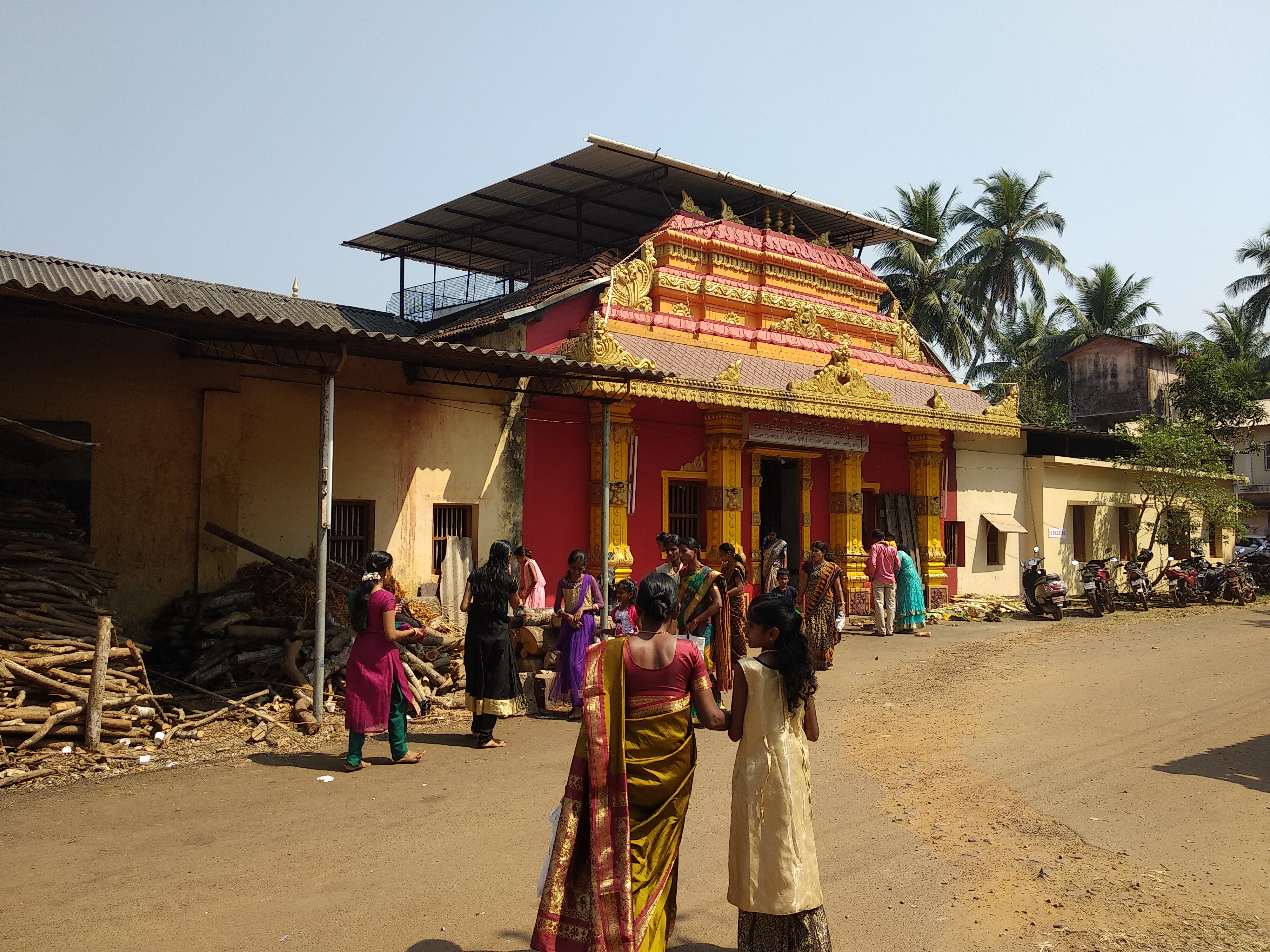 Mundkur Village, Karkal Taluk Udupi district, Karnataka India ಕನ್ನಡ: ಮುಂಡ್ಕೂರು ಗ್ರಾಮ, ಕಾರ್ಕಳ ತಾಲೂಕು ಉಡುಪಿ ಜಿಲ್ಲೆ, ಕರ್ನಾಟಕ